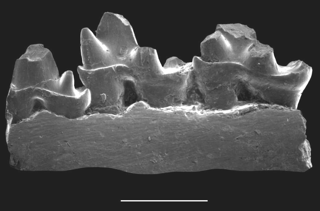 Mandible of the Jurassic mammal Ambondro in lingual view. Scale bar is 1 mm.